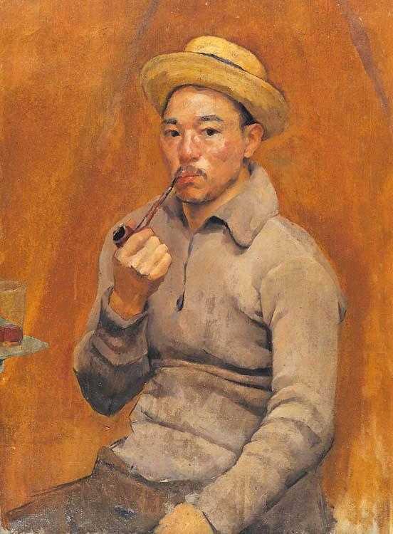 Self-portrait oil painting of Japanese artist Yamamoto Kanae. Size: 380×240mm